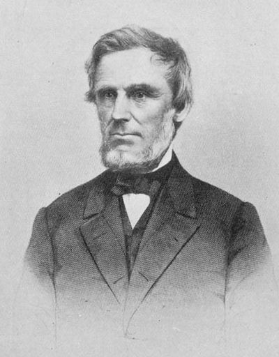 Henry R. Selden, lawyer and politician from Rochester, NY